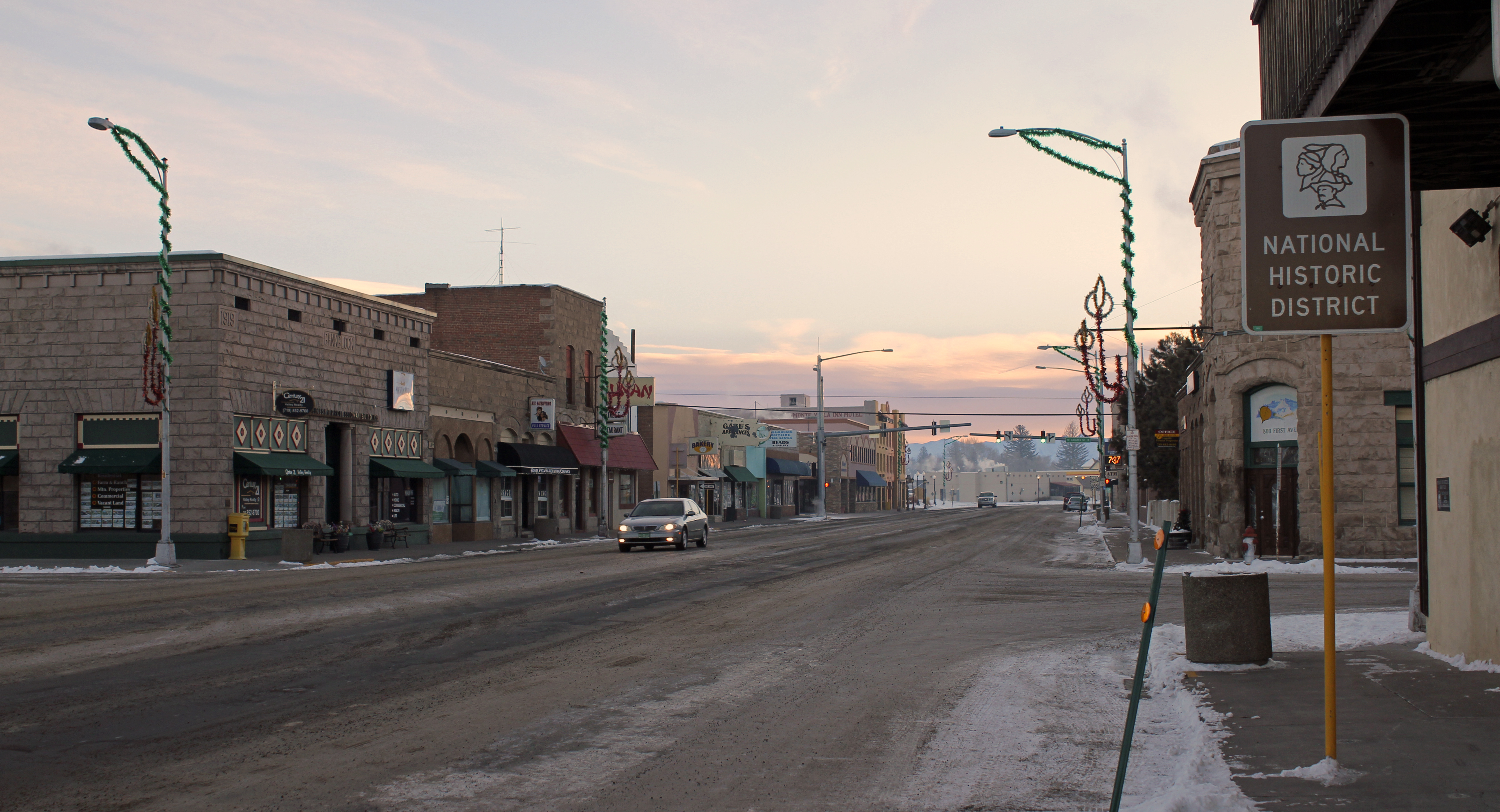 The Monte Vista Downtown Historic District, located in Monte Vista, Colorado.